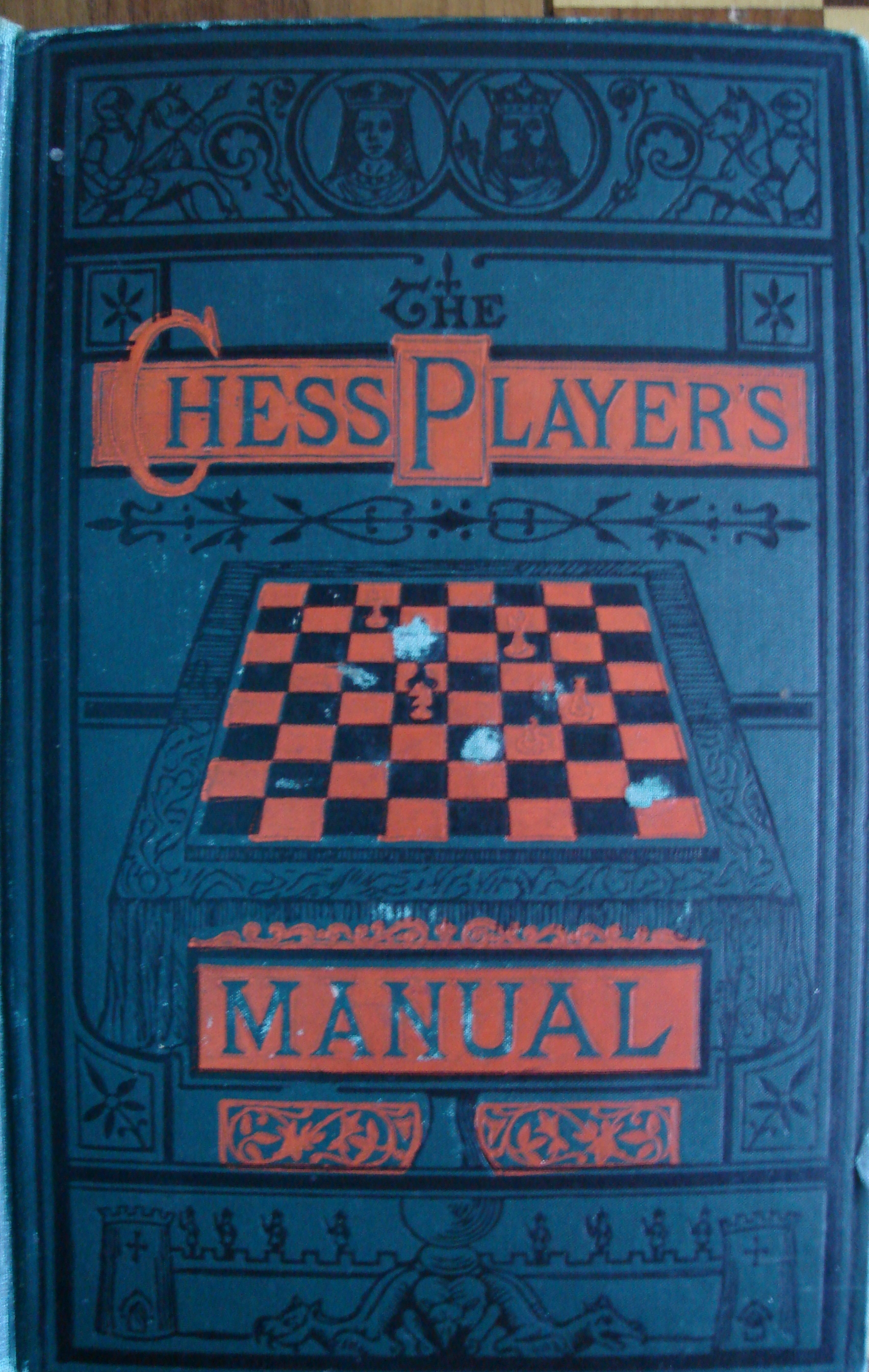 "The Chess-Player's Manual"